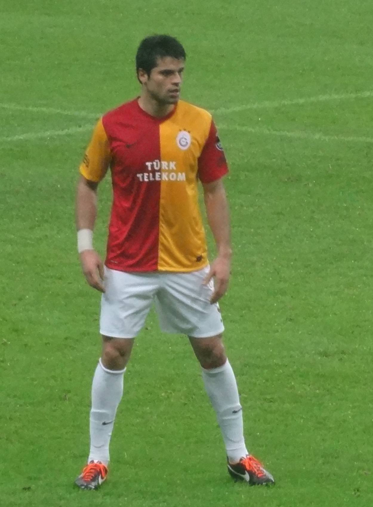 Zan, gol attığı Ankaragücü maçında